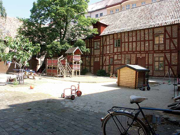 The old buildings in the block of "St Gertrud" in Malmo, Sweden.